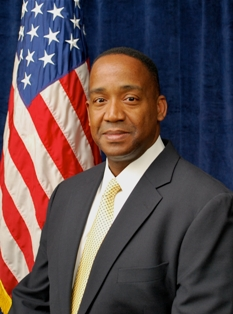 Illustration of Central District U.S. Attorney from Department of Justice website